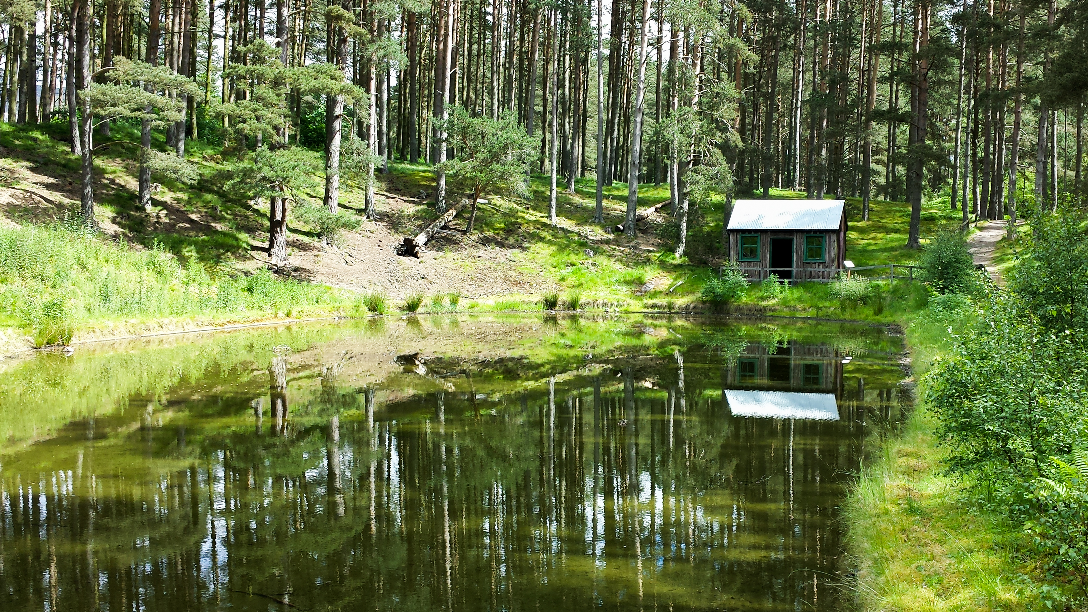 Historic Newtonmore curling rink, Scotland.